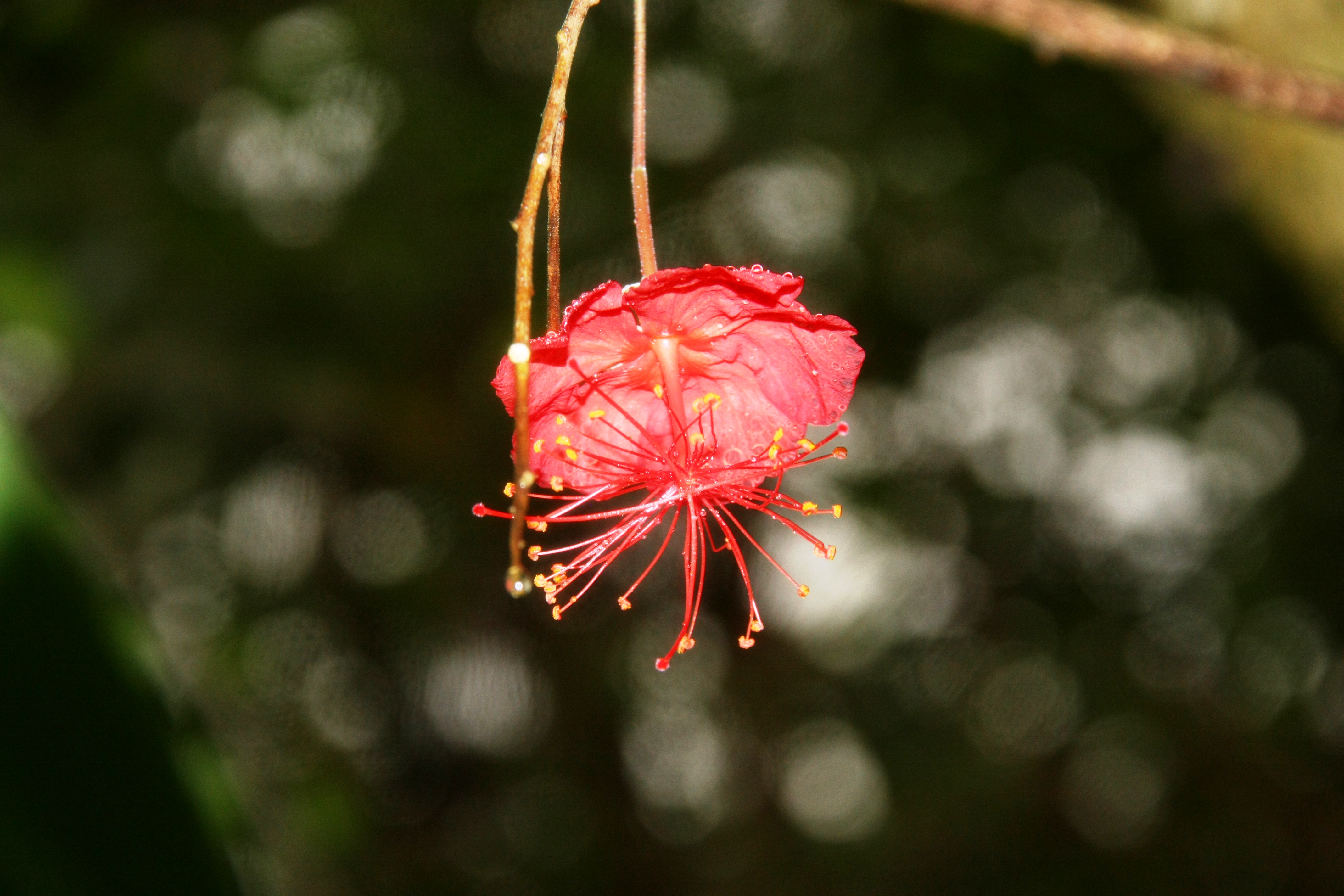 This photograph was taken on 15th December during an event in Fata Morgana Greenhouse, supported by Czech 'Mediagrant'.